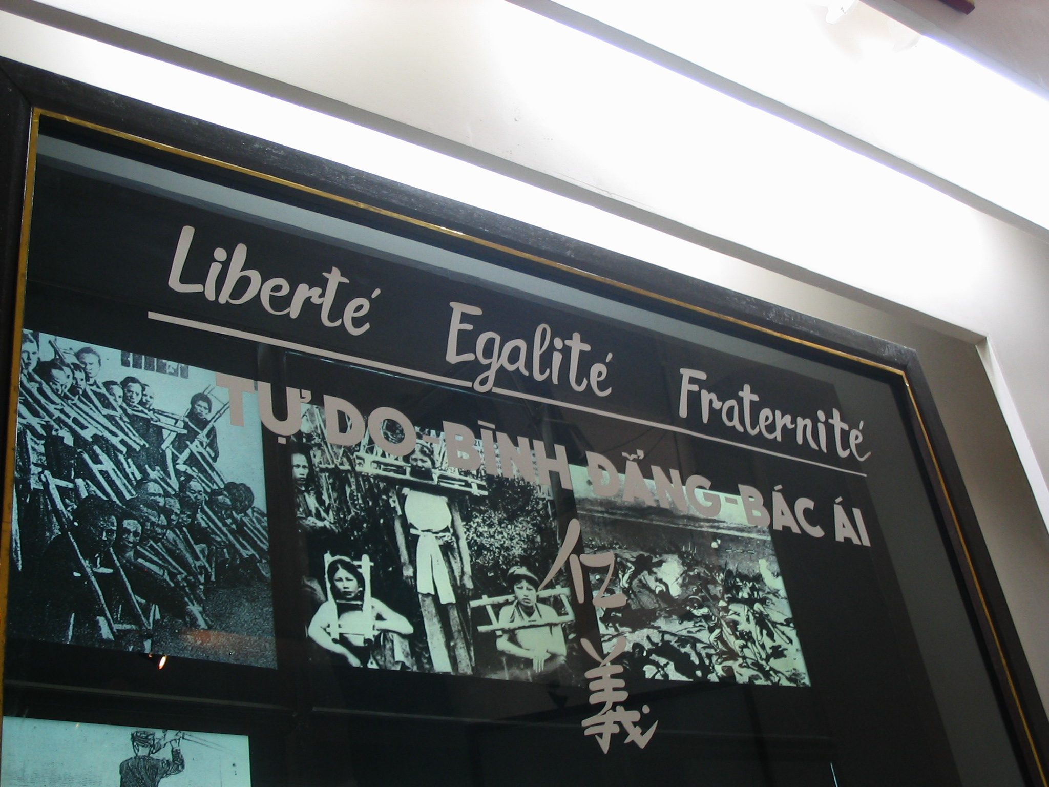 French motto "Liberté, Égalité, Fraternité" contrasted by the background covered with pictures of Vietnamese people tortured during colonisation of Indochina.